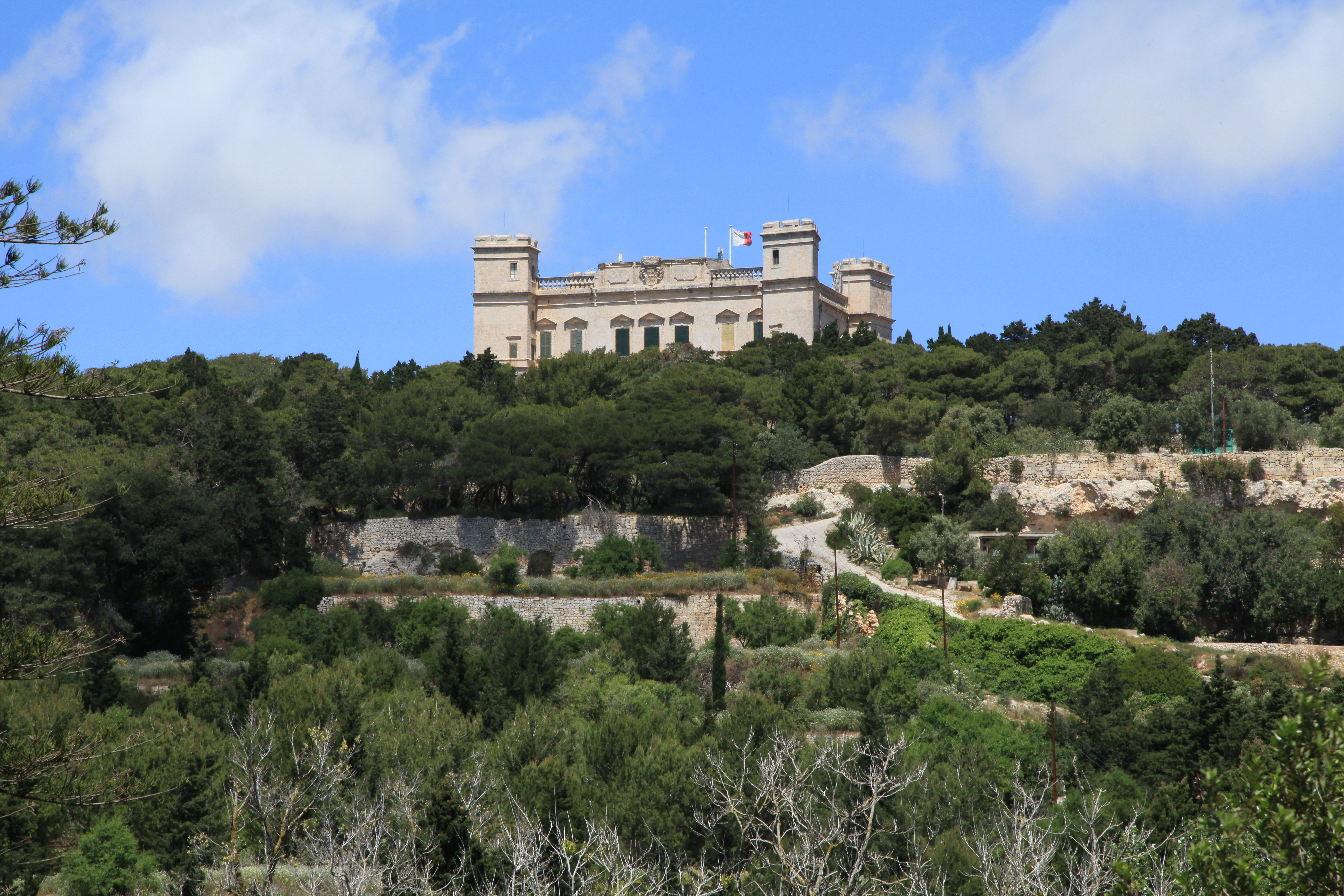 Verdala Palace in the Buskett Gardens, Triq il-Buskett in Siġġiewi, Malta